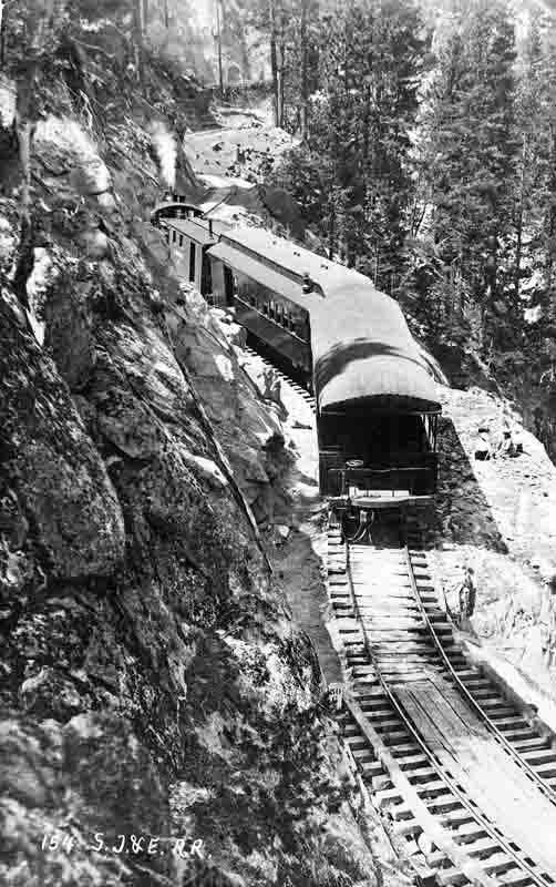 Photo taken around 1918 at Huntington Lake area, Fresno County, California, of the San Joaquin & Eastern Railraod; Photo by A.C. Mudge, Published by the San Joaquin Valley Library System. Source URL